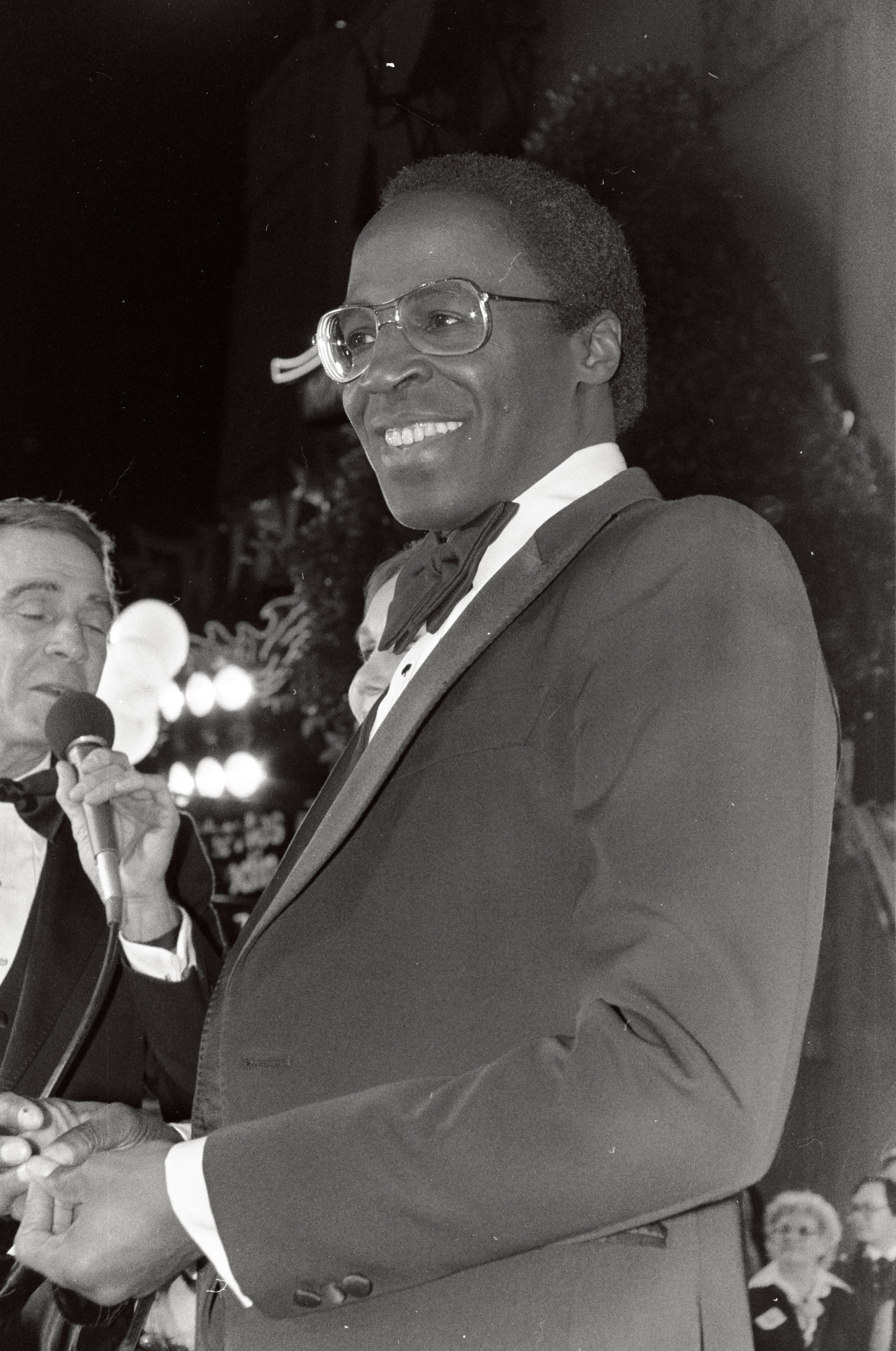 Photo of Robert Guillaume at the premiere of Seems Like Old Times.